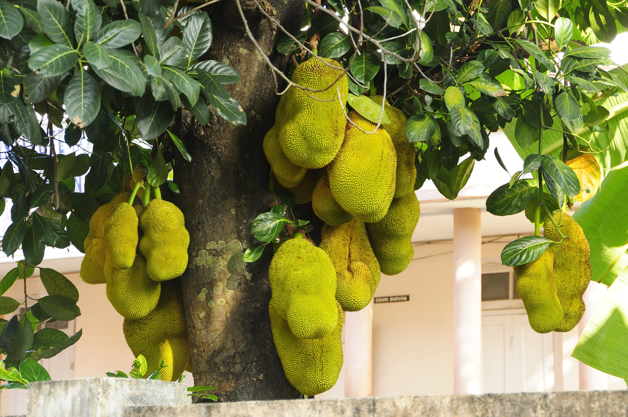 Jack fruit is an exotic fruit grown in tropical regions of the world. It is native to South India. It is part of the Moraceae plant family, which also includes fig, mulberry and breadfruit. Jackfruit has a spiky outer skin and is green or yellow in color. One unique aspect of jackfruit is its unusually large size.